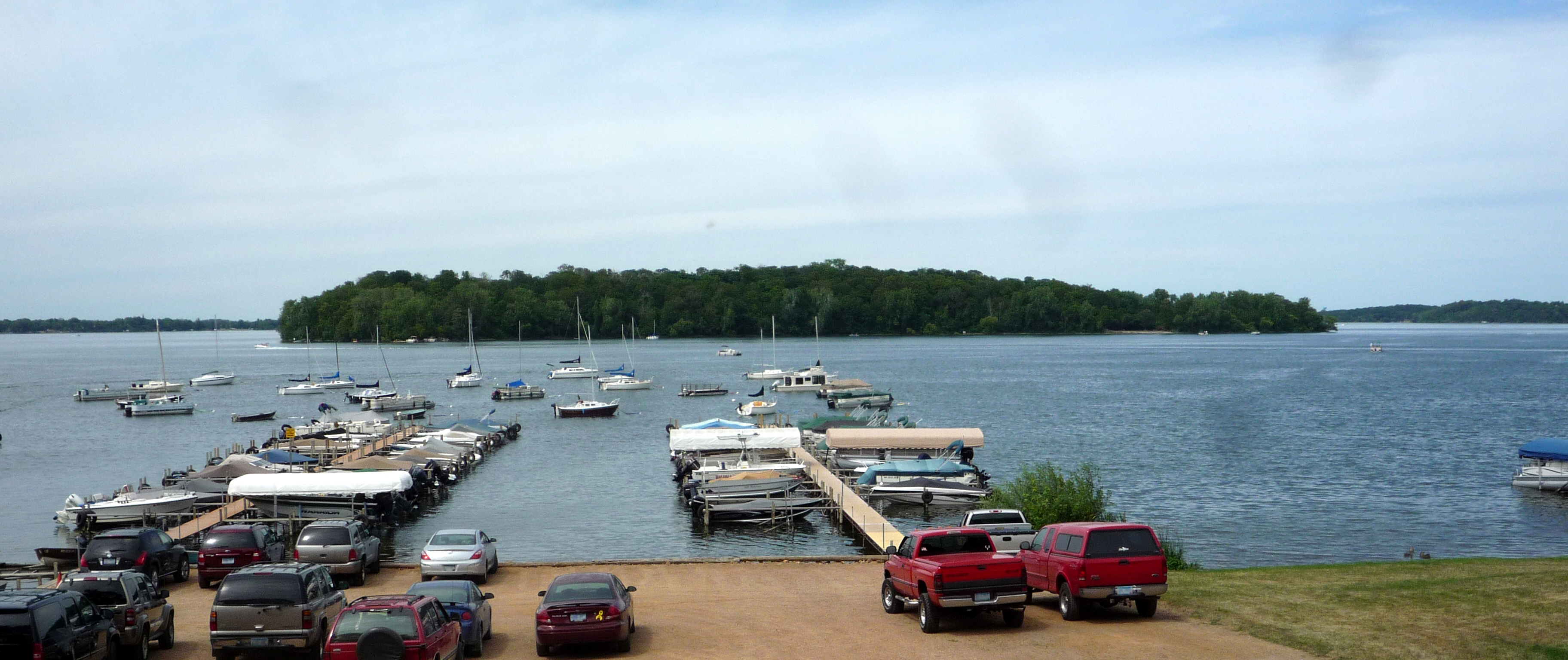 Coney Island of the West (NRHP), Waconia, Minnesota, USA.